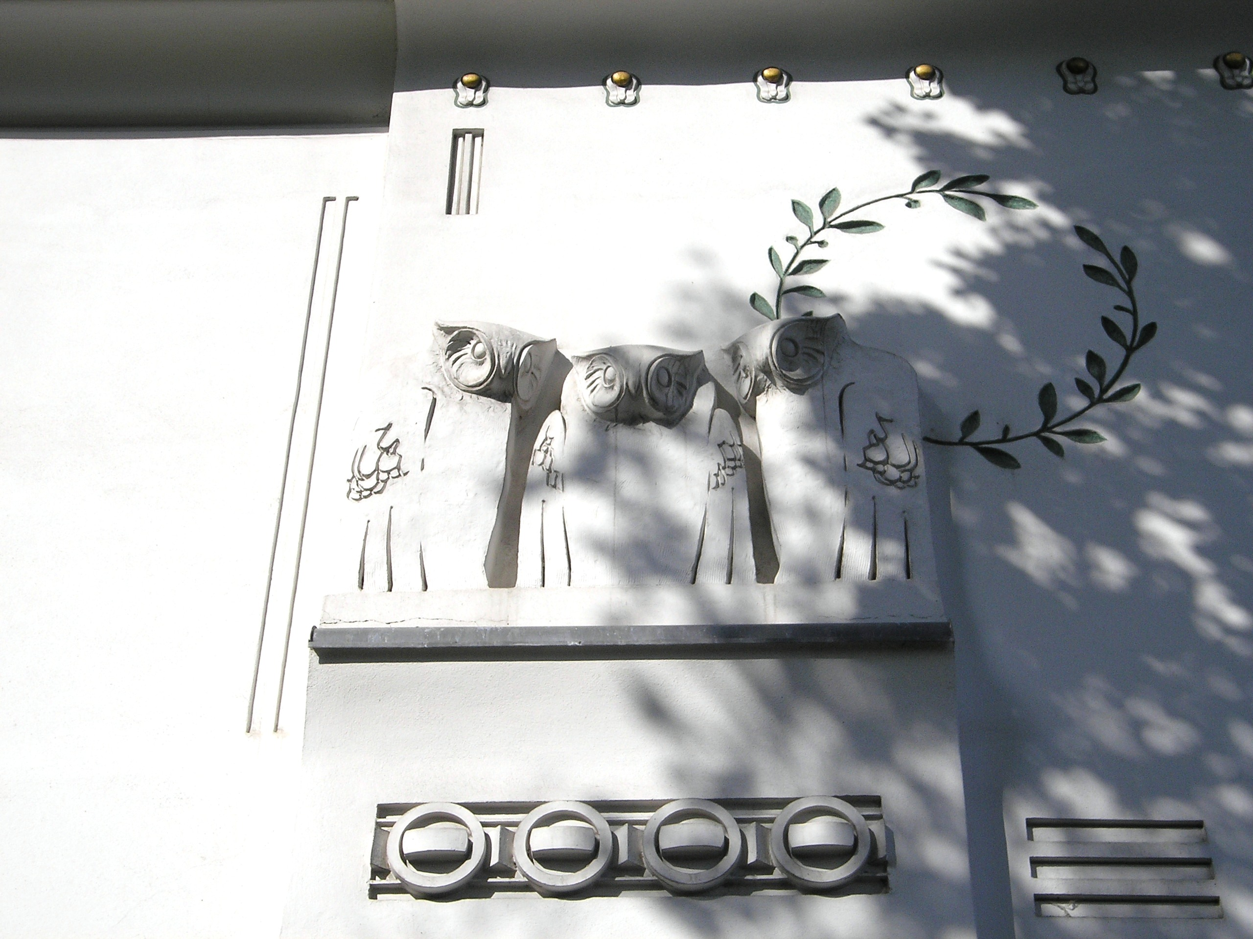 Austria, Vienna, Secession hall